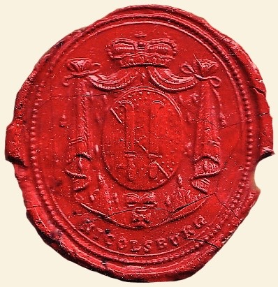 City Mikulov (Nicolsburg) official Seal, 1810